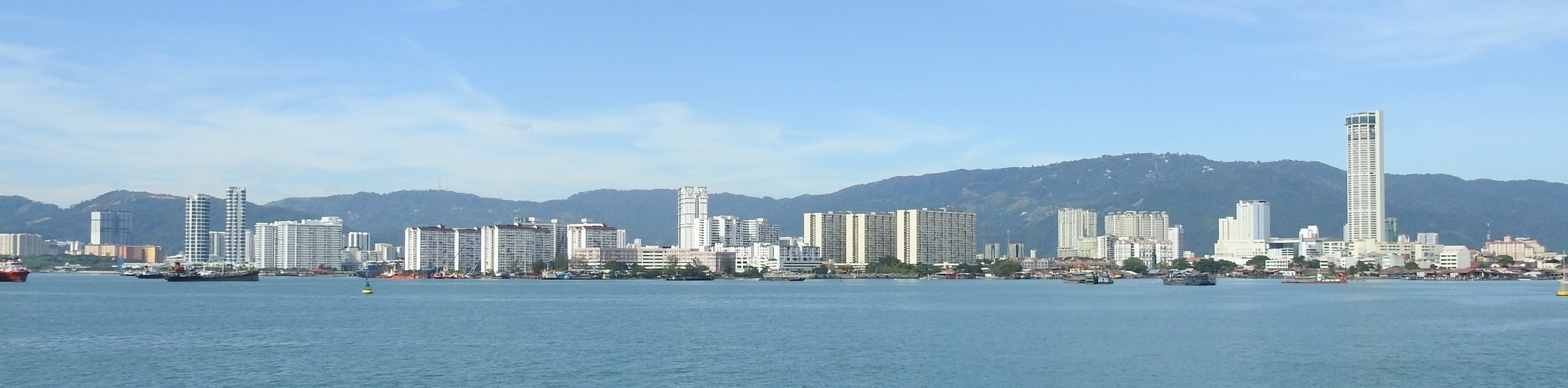 George Town skyline